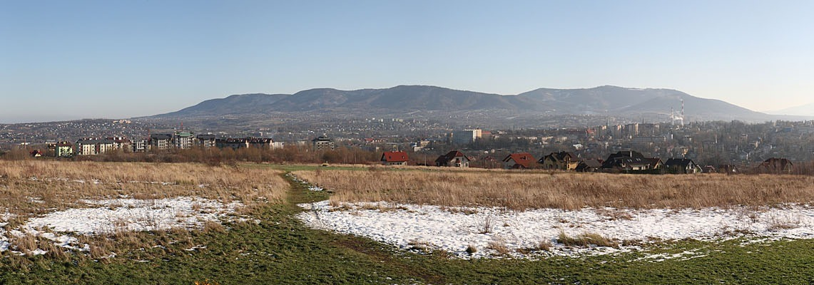 View of Bielsko-Biała from Trzy Lipki.